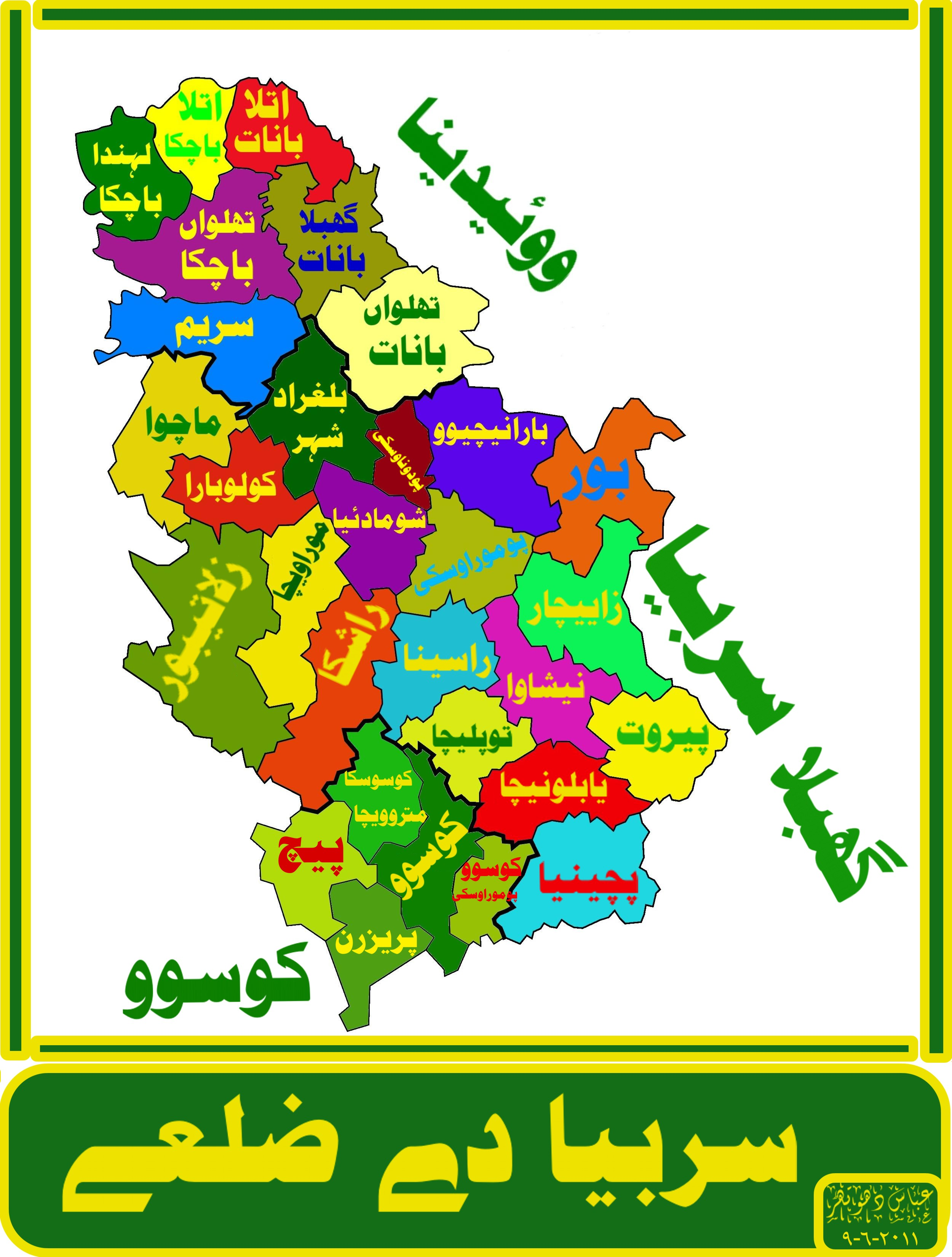 Map of Districts of Serbia in Punjabi.